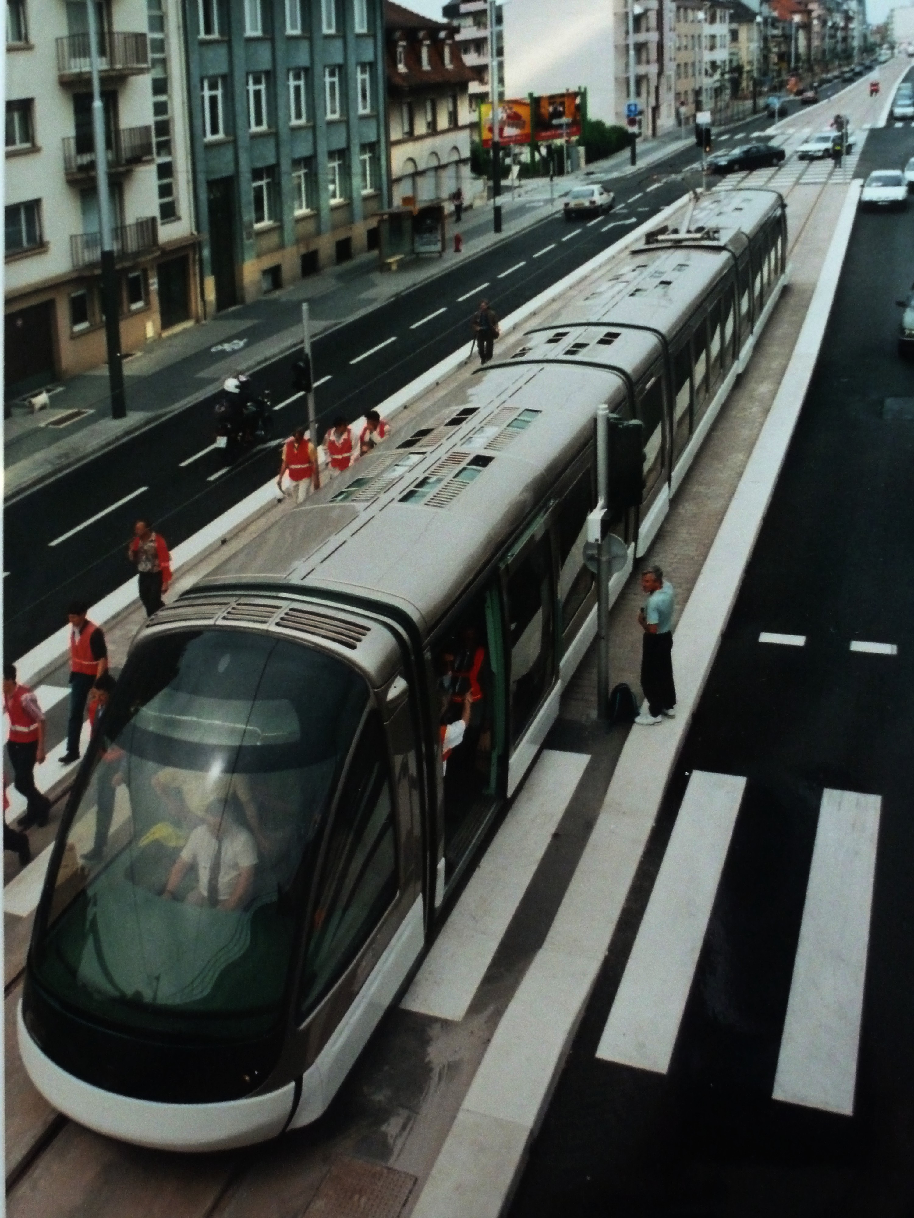 Author Johan Neerman